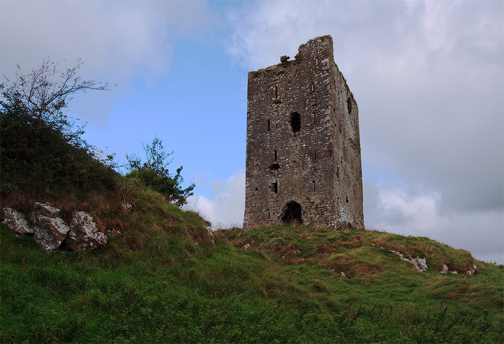 Castles of Munster: Rockstown, Limerick This five storey tower atop a rock outcrop, commands fine views from its position overlooking the Limerick countryside north of Lough Gur. Nothing now remains of the parapet, and of a machicolation covering the entrance, only the corbels are left projecting over the top.